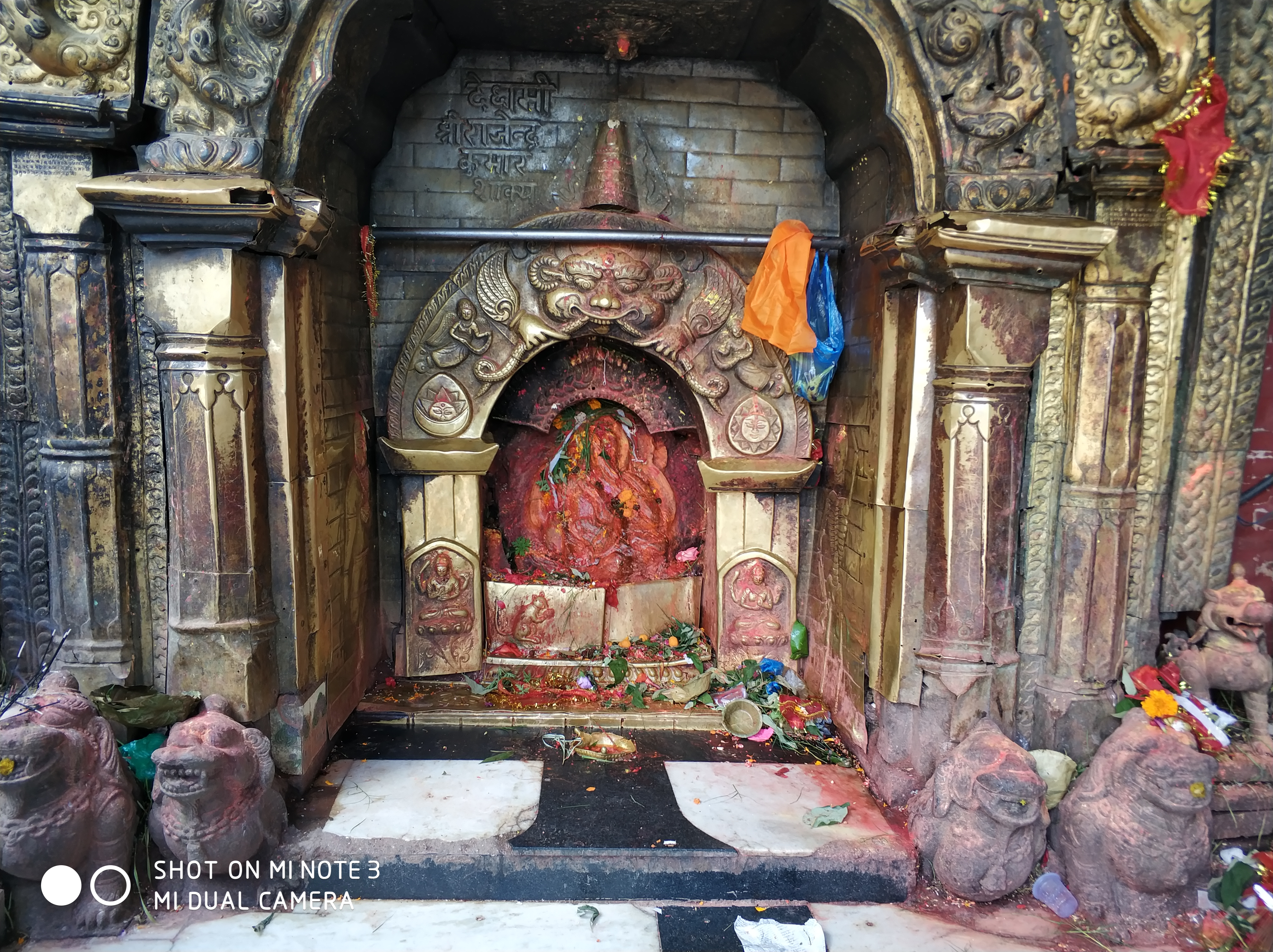 Suryavinayak Temple is a Hindu Temple in Nepal, which is located in Bhaktapur district, Nepal. The temple is dedicated to the Hindu god Ganesh. The temple is an historical and cultural monument and tourist centre also.